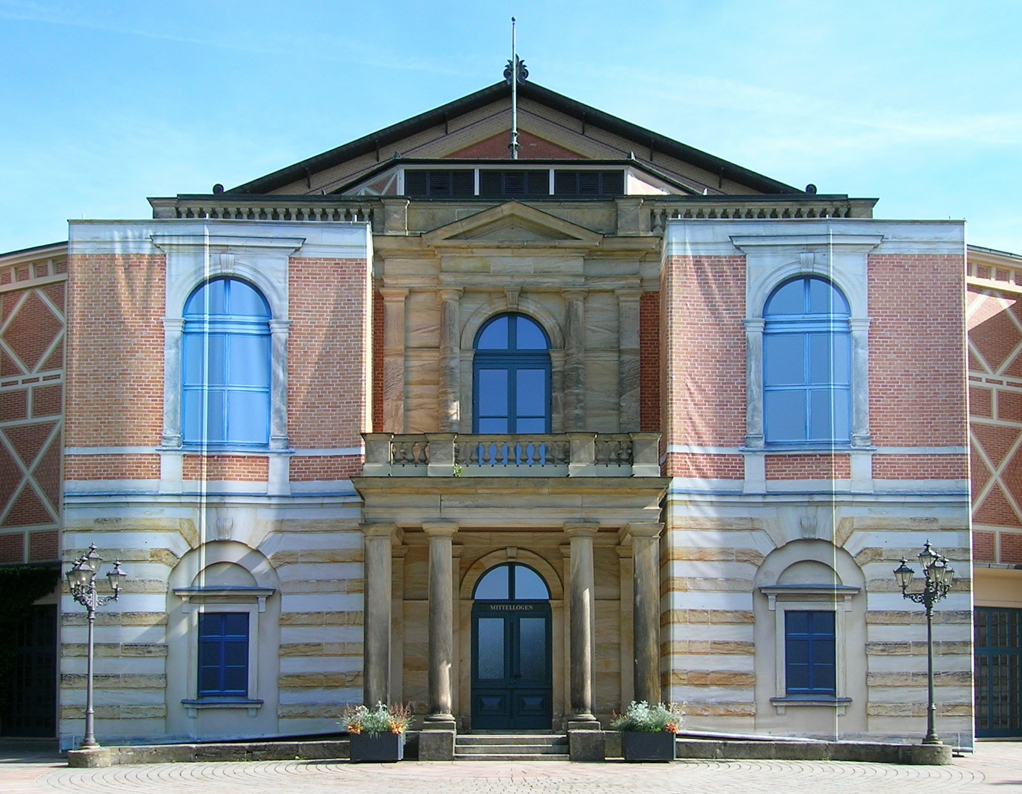 The Festspielhaus in Bayreuth in 2014. The scaffolding around the facade is hidden under photographs of it printed on canvas.